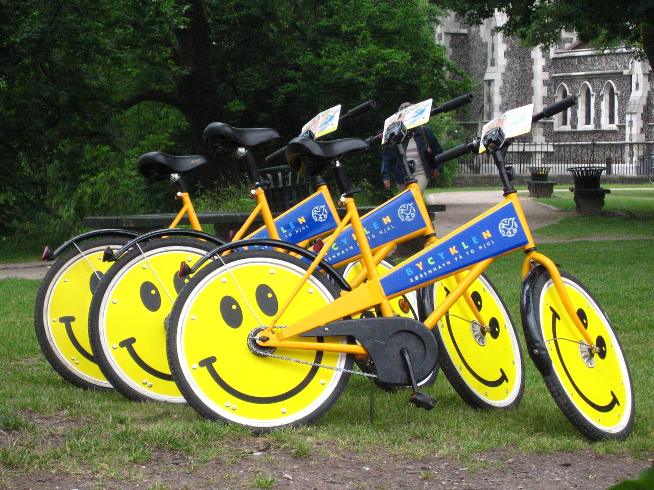 Copenhagen, Denmark city bicycles